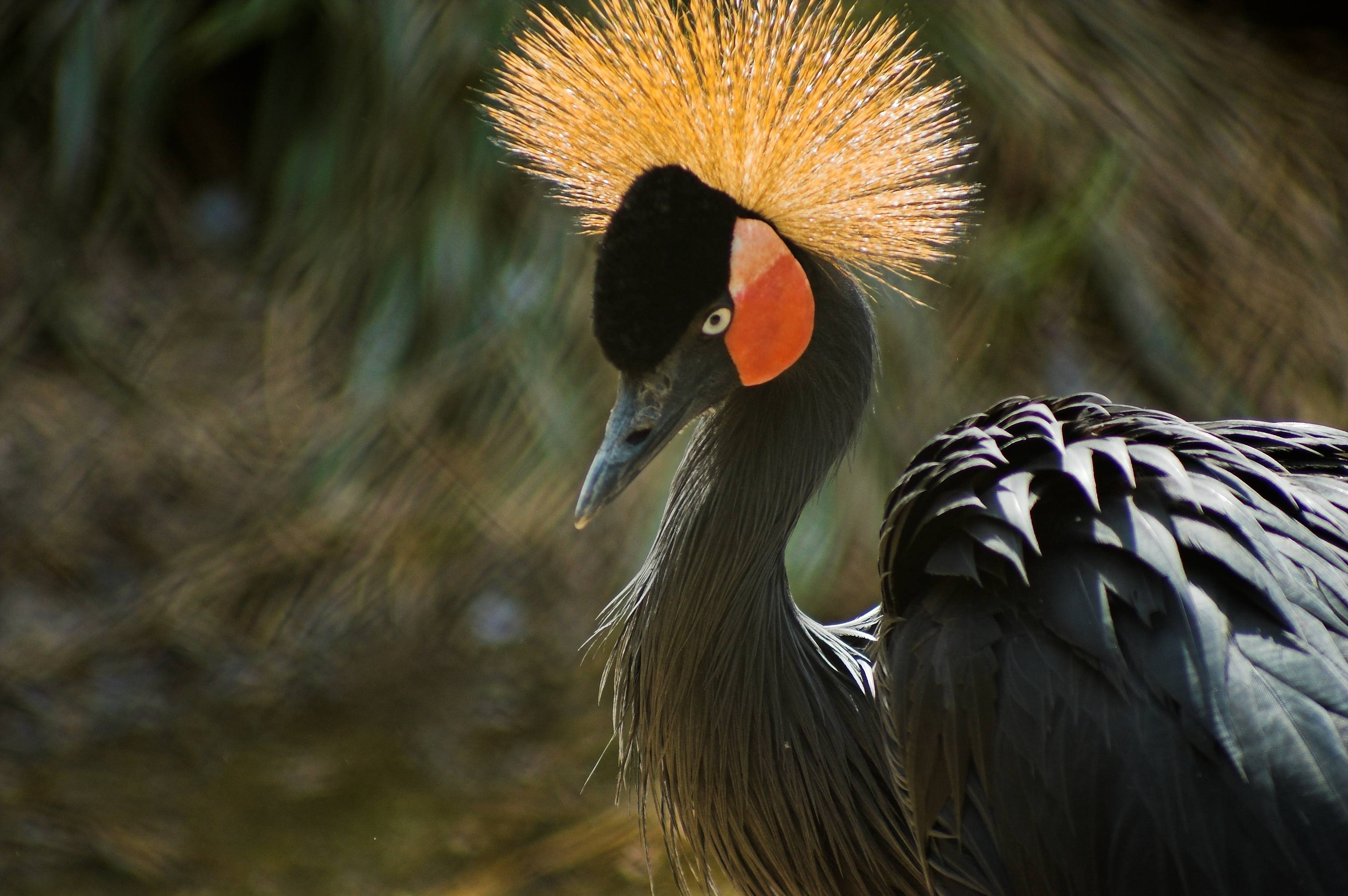 Pictures taken in Artis Zoo, Amsterdam - Nederlands Balearica pavonina en : Black crowned crane fr : Grue couronnée